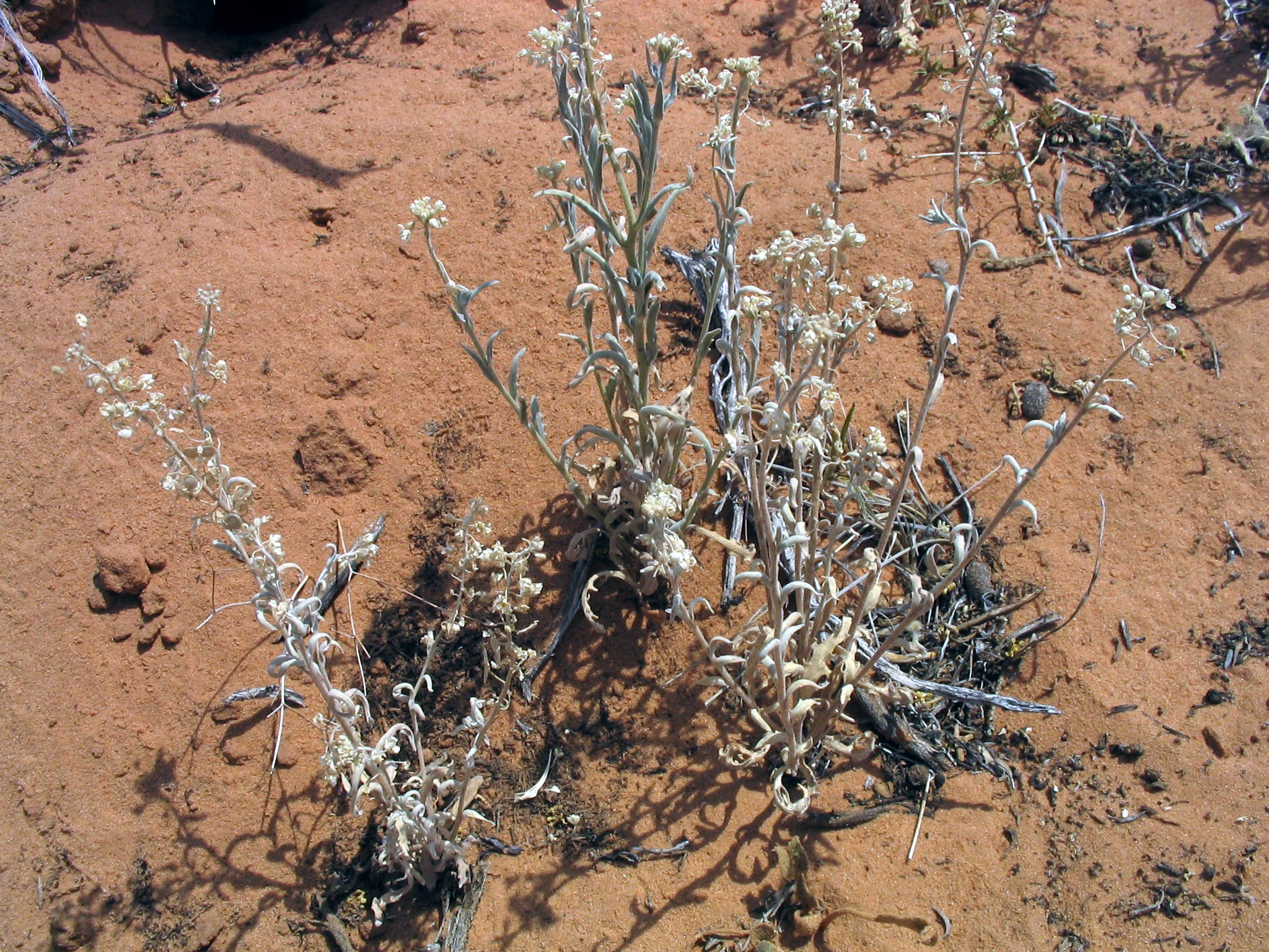 Photograph of Dimorphocarpa wislizeni (tourist plant or spectacle pod) in bloom, Kane County, Utah, western United States. Taken July 2003.